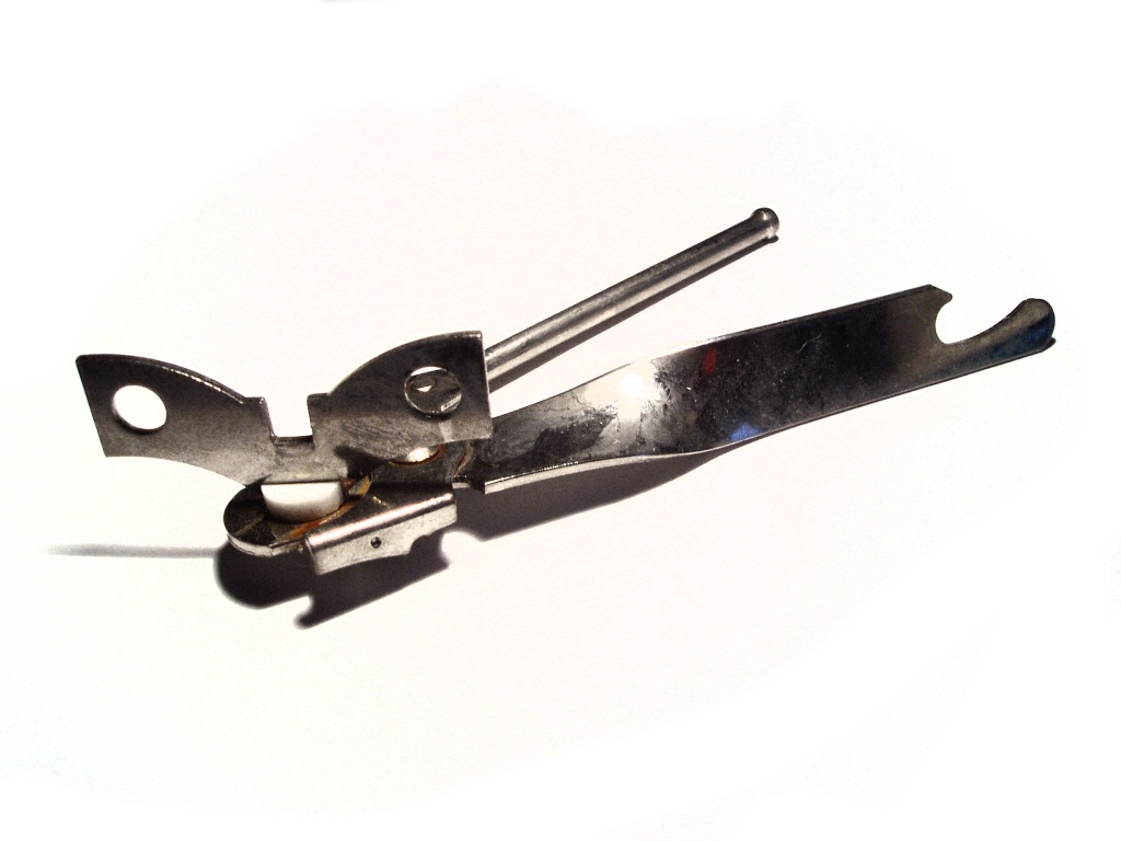 By Richard Wheeler (Zephyris) 2007.